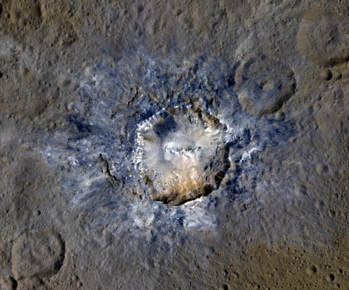 Haulani Crater in Enhanced Color Ceres' Haulani Crater, with a diameter of 21 miles (34 kilometers), shows evidence of landslides from its crater rim. Smooth material and a central ridge stand out on its floor. This image was made using data from NASA's Dawn spacecraft when it was in its high-altitude mapping orbit, at a distance of 915 miles (1,470 kilometers) from Ceres. This enhanced color view allows scientists to gain insight into materials and how they relate to surface morphology. Rays of bluish ejected material are prominent in this image. The color blue in such views has been associated with young features on Ceres. Dawn's mission is managed by JPL for NASA's Science Mission Directorate in Washington. Dawn is a project of the directorate's Discovery Program, managed by NASA's Marshall Space Flight Center in Huntsville, Alabama. UCLA is responsible for overall Dawn mission science. Orbital ATK, Inc., in Dulles, Virginia, designed and built the spacecraft. The German Aerospace Center, the Max Planck Institute for Solar System Research, the Italian Space Agency and the Italian National Astrophysical Institute are international partners on the mission team. For a complete list of acknowledgments, For more information about the Dawn mission, visit